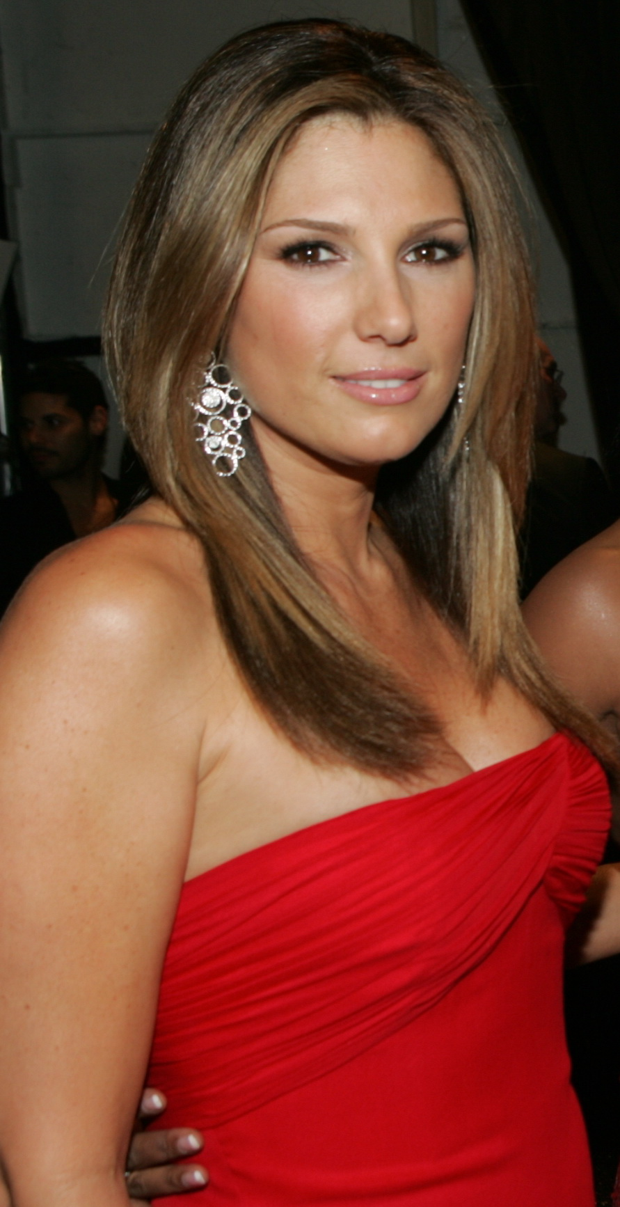 Daisy Fuentes backstage at the 2009 The Heart Truth's Red Dress Collection Fashion Show.